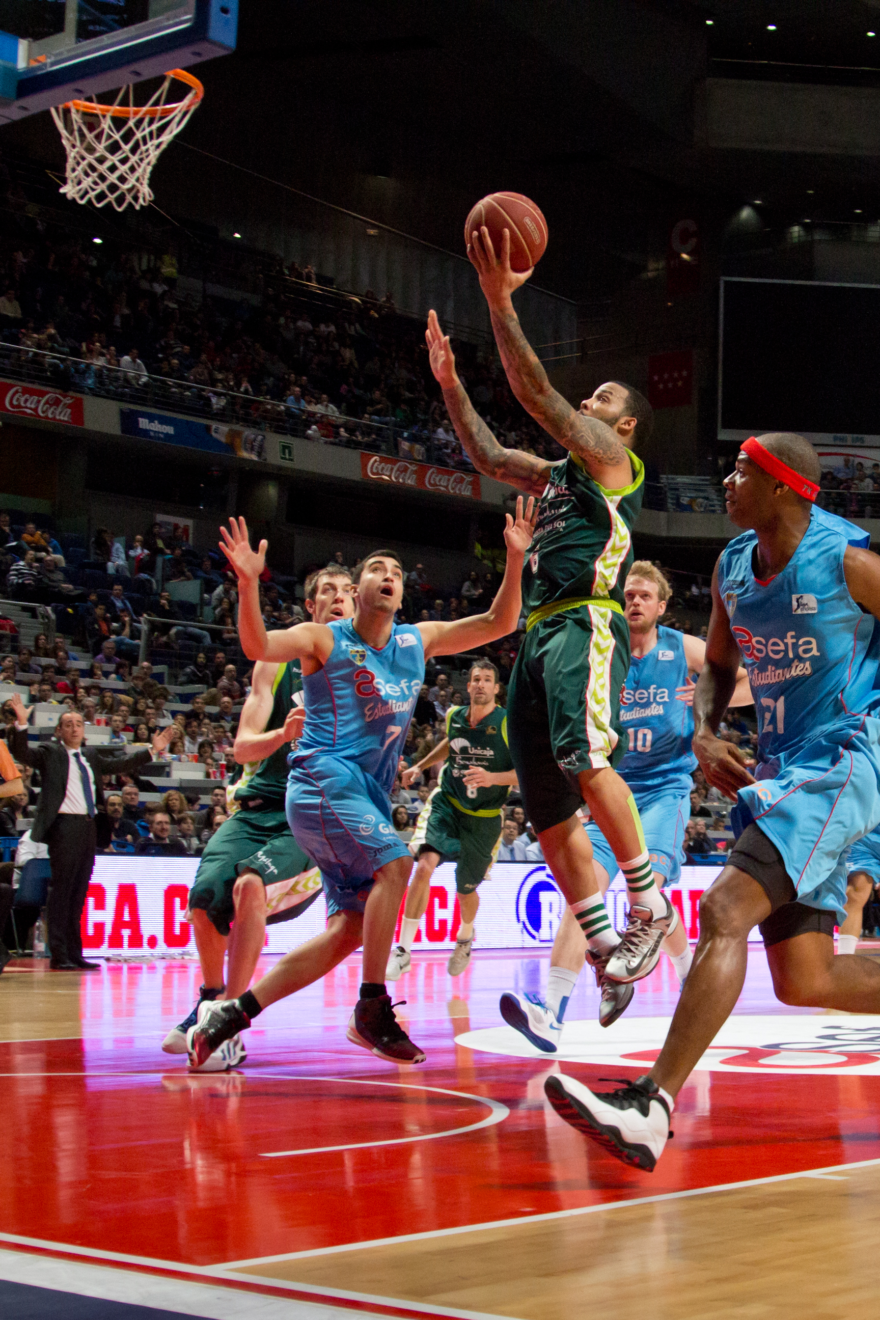 Marcus Williams about to score two points. Game Estudiantes vs Unicaja Málaga.